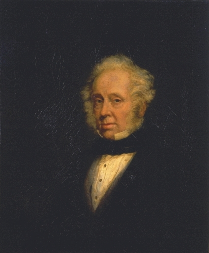 Portrait of Lord Palmerston (1784-1865)